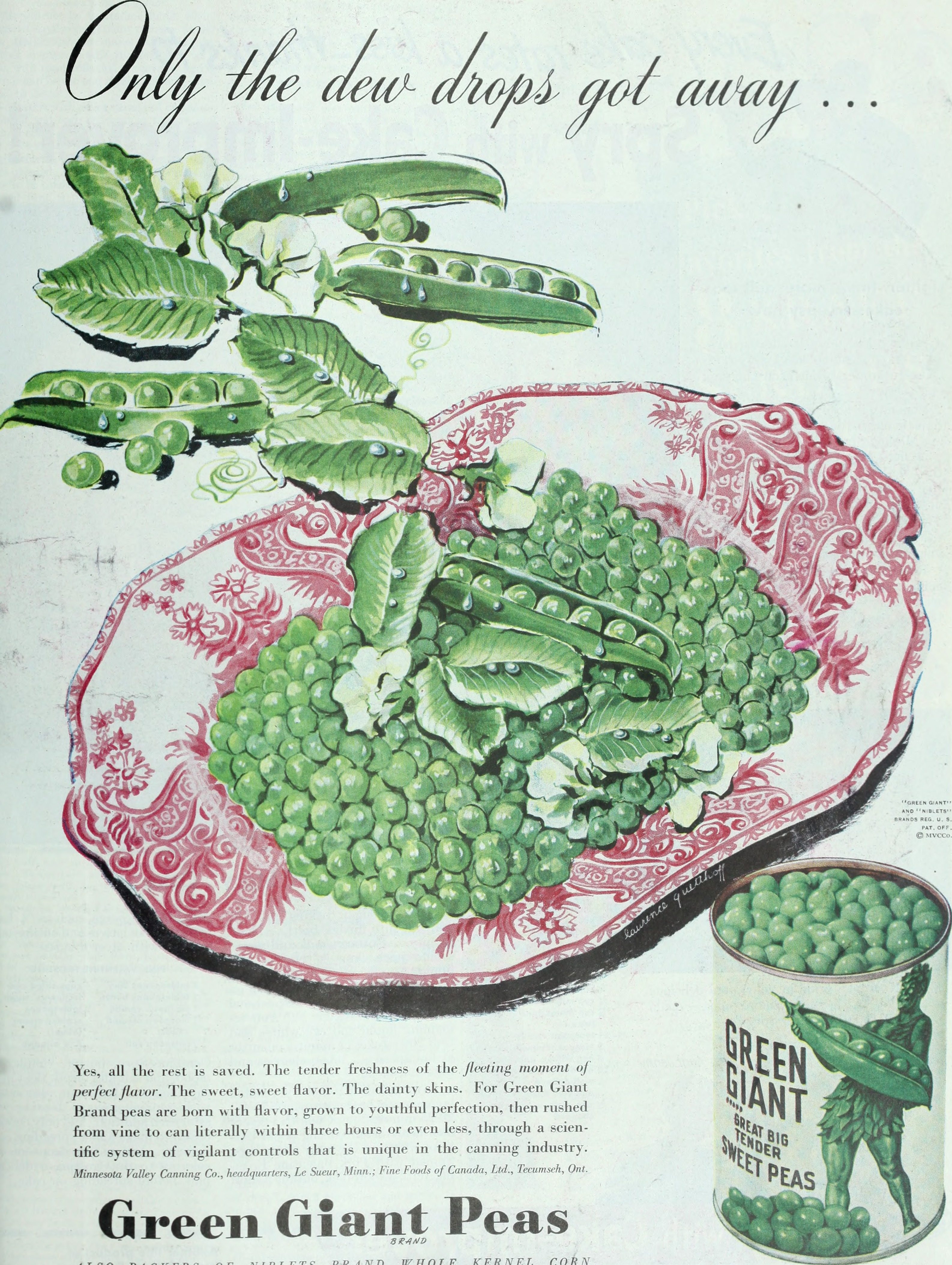 Green Giant - Only the drew dops got away (1948) Title: The Ladies' home journal Year: 1889 (1880s) Authors: Wyeth, N. C. (Newell Convers), 1882-1945 Subjects: Women's periodicals Janice Bluestein Longone Culinary Archive Publisher: Philadelphia : (s.n.) Text Appearing Before Image: onale eaters I have known—and Ive knownsome honeys—not one has ever said No, thank you,when this famous dish has heen passed.Thats assuming, of course, that spaghetti, meat and sauceare as they should be. Spaghetti can be spoiled by overcooking,and the sauce can lack the necessary pungency. But with carespaghetti can come to the table with its long strands intact,chewy—with not a hint of mushiness about it. A small quantityof meat, some vegetables, a lot of seasoning—and again care—can combine in a sauce that wont soon be forgotten. And themeat will register too. Its not exactly easy—dont let anybodytell you thai I lie Italian cuisine is simple as compared with, say,the French. Bui when a people as appreciative as the Italiansdole on a dish as they do on spaghetti, it must be worth a littletrouble. It is. (Continued on Page 199) For an imaginative dessert, candy some orange and grapefruitpeel. Dates go round this, stuffed with cream cheese and pecans. LADIES HOME JOU;\ \l. Text Appearing After Image: Yes, all the rest is saved. The tender freshness of the fleeting moment ofperfect flavor. The sweet, sweet flavor. The dainty skins. For Green GiantBrand peas are born with flavor, grown to youthful perfection, then rushedfrom vine to can literally within three hours or even less, through a scien-tific system of vigilant controls that is unique in the canning industry. Minnesota Valley Canning Co., headquarters, Lc Sueur, Minn.; Fine Foods of Canada, Ltd., Tecumseh, Out. Green Giant Peas ALSO PACKFRS OF NIBLETS BRAND WHOLE KERNEL £ORN LADIES HOME JOURNAL February.